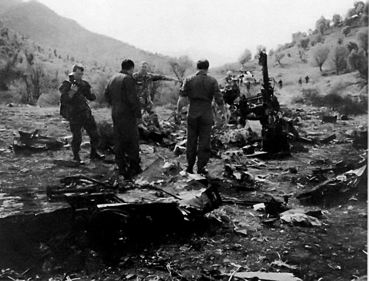 U.S. Military personnel inspect the wreckage of a Black Hawk helicopter in the Northern Iraq No Fly Zone during Operation Provide Comfort, April 15 or 16, 1994. The helicopter was one of two United States Army Black Hawks shot down by U.S. Air Force F-15 fighters on April 14, 1994 in a friendly fire incident. This was the trailing helicopter and was shot down by USAF Captain Eric Wickson.